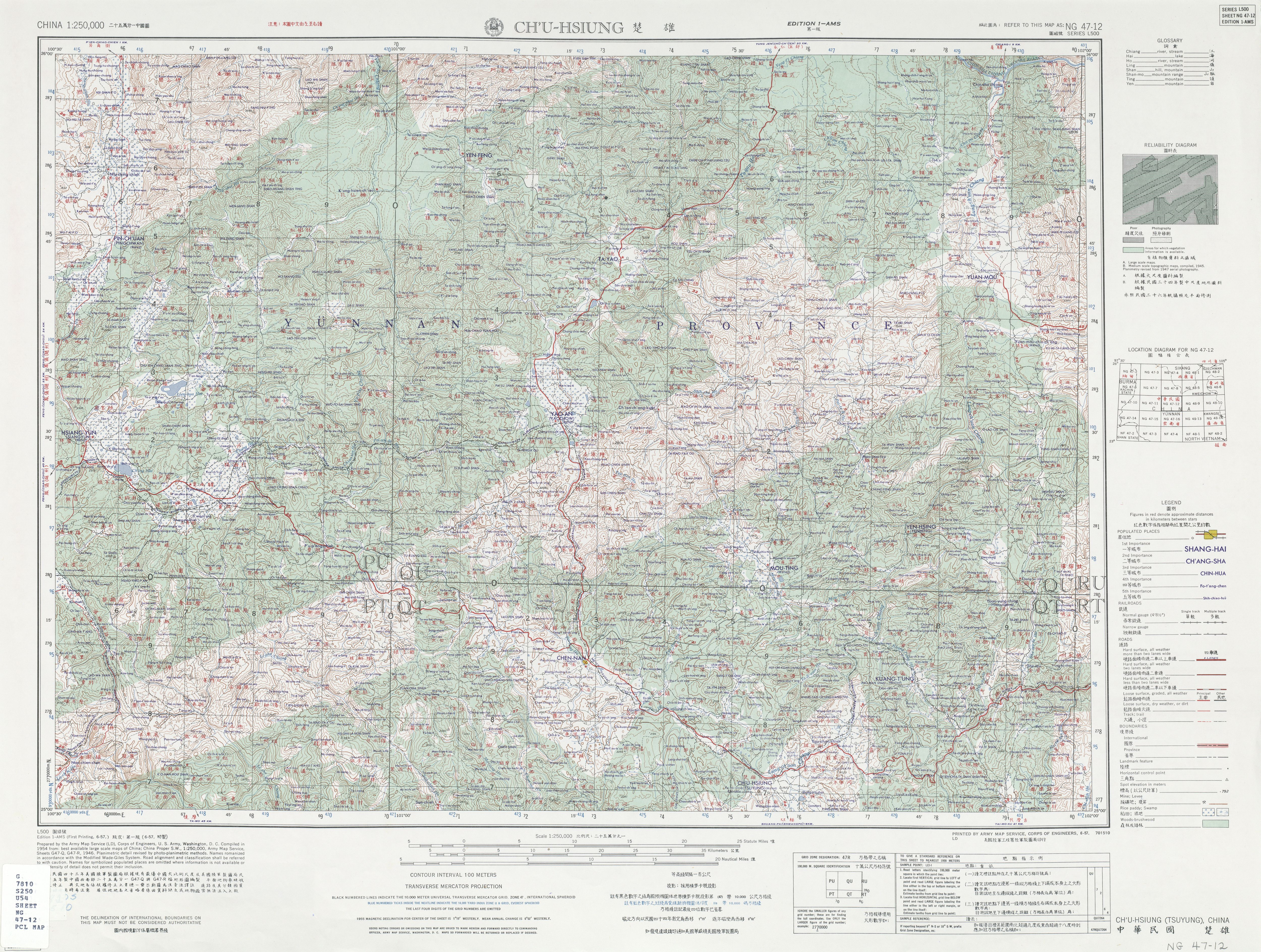 China AMS Topographic Maps